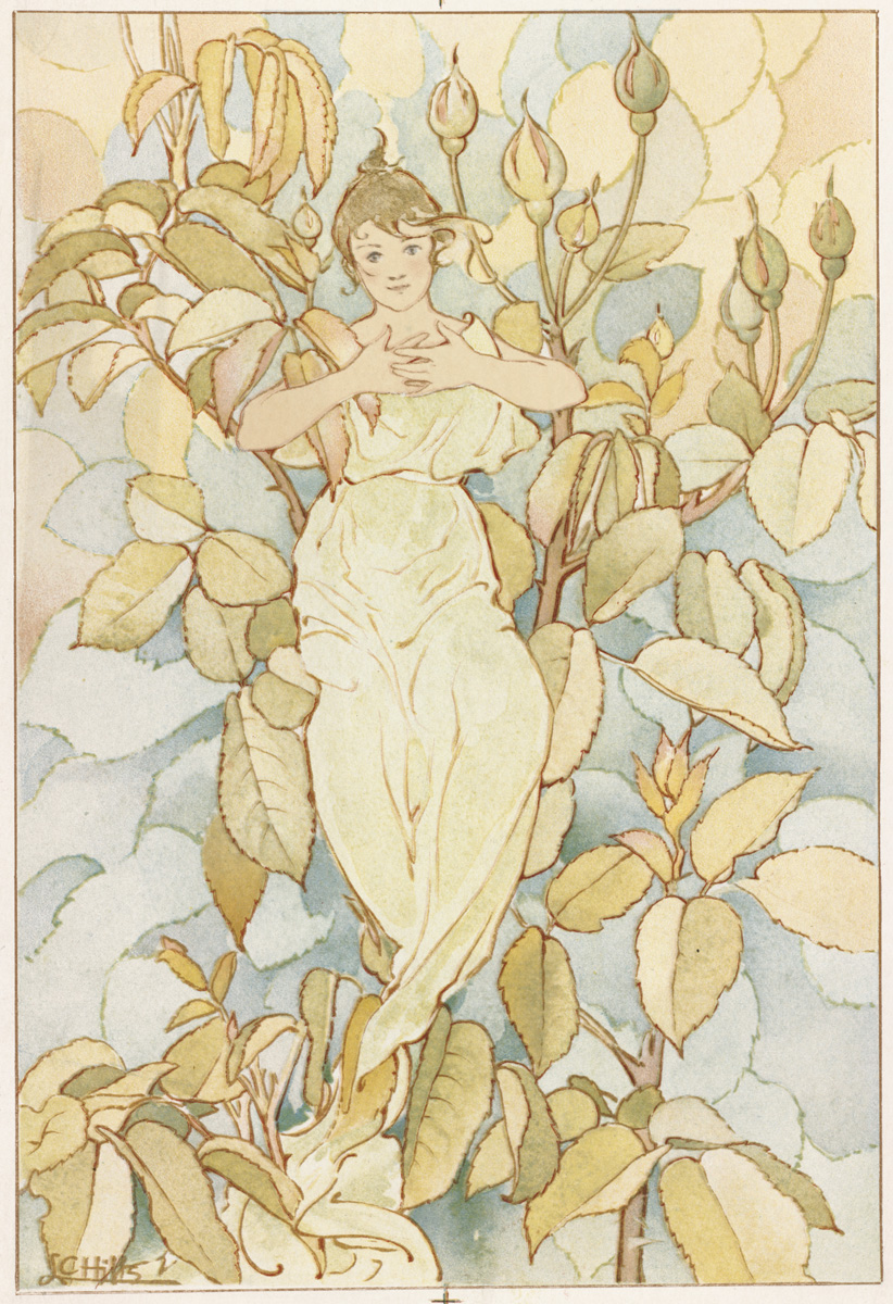 File name: 07_11_000379 Title: Flower Fairy Creator/Contributor: Hills, Laura Coombs, 1859-1952 (artist); L. Prang & Co. (publisher) Date issued: 1861-1897 (approximate) Physical description note: Genre: Chromolithographs; Portrait prints Notes: Title supplied by cataloger. Location: Boston Public Library, Print Department Rights: No known restrictions Flickr data on 2011-08-07: Camera: Sinar AG Sinarback 54 FW, Sinar m License: CC BY 2.0 User: Boston Public Library BPL